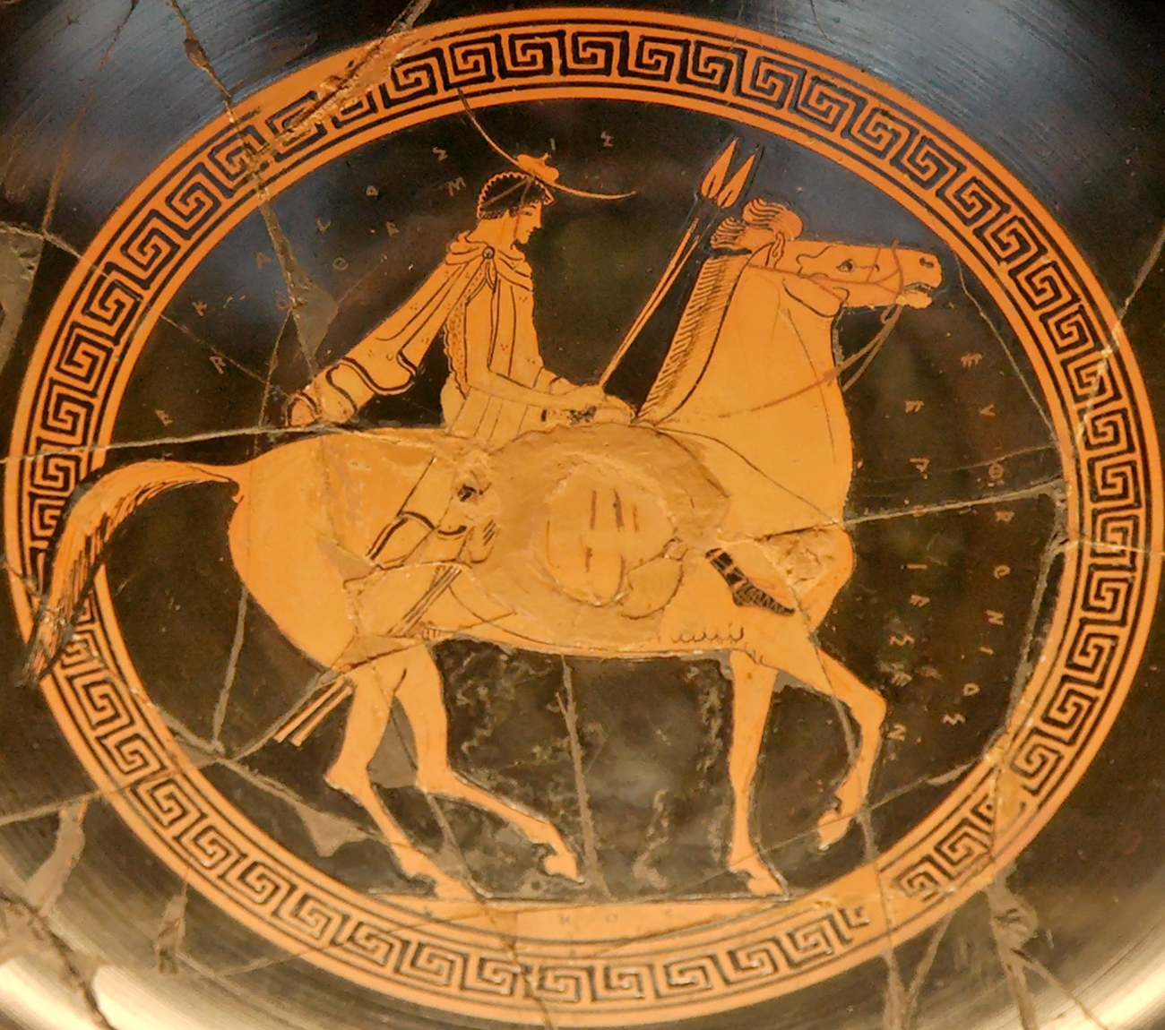 Rider. Interior of an Attic red-figure cup, ca. 500–490 BC. Found in Vulci.